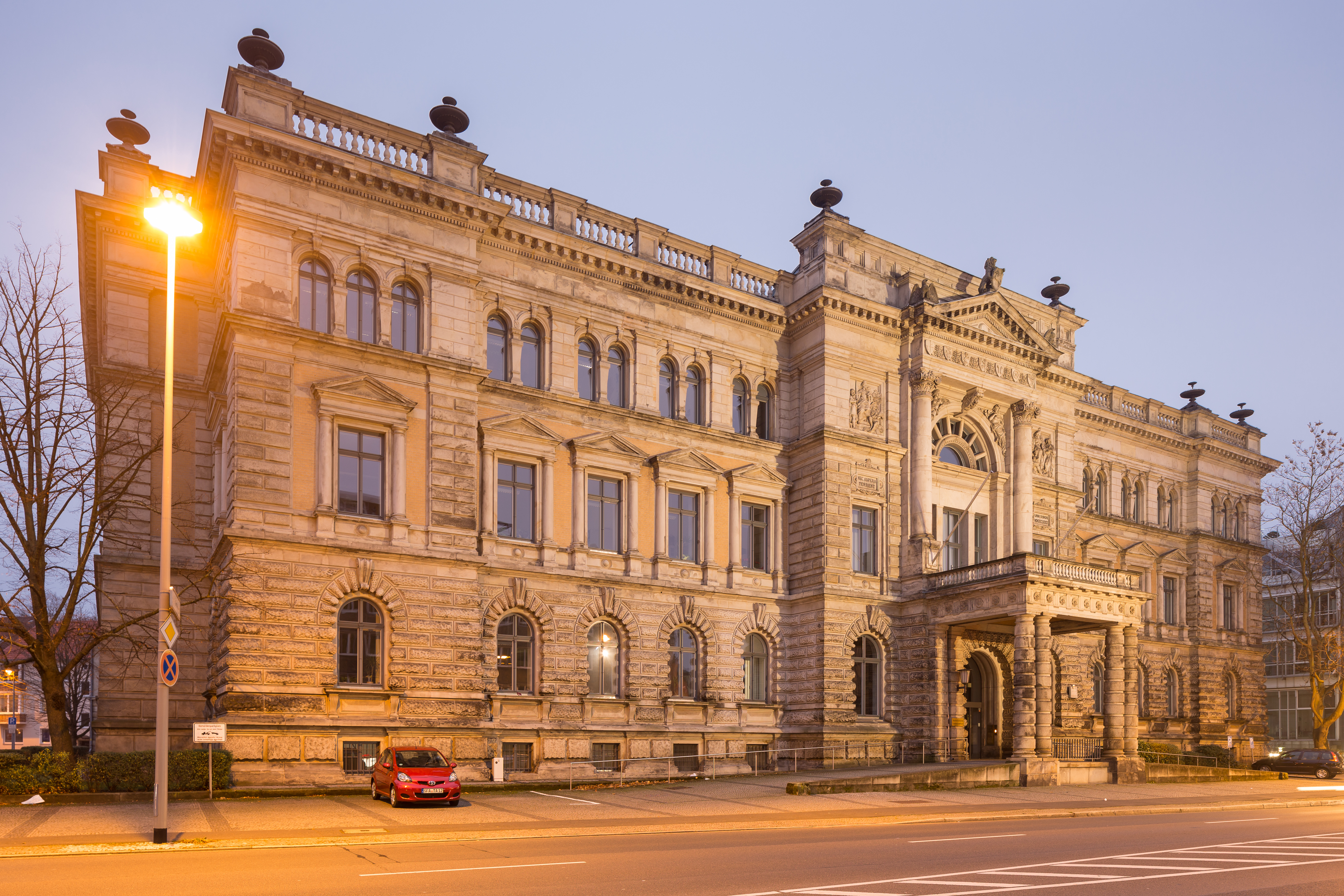 Former Staendehaus (today: Lower Saxony's ministry of finance) located at Schiffgraben 10 in Mitte district of Hannover, Germany.